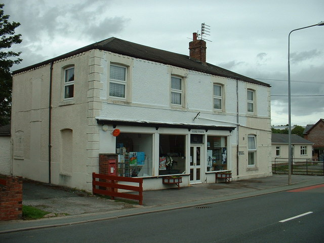 Pontybodkin Post Office.